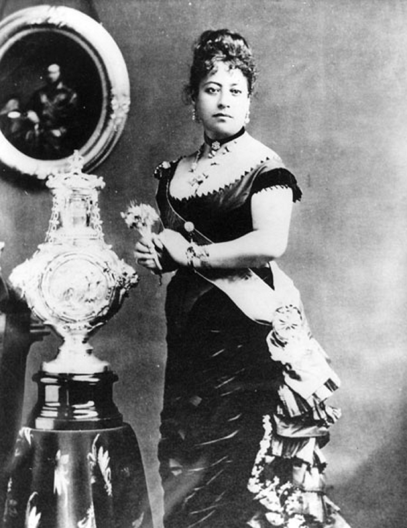 Queen Emma with the silver christening font for her son Albert Kamehameha, a gift from Queen Victoria. Hawaii State Archives credits A. A. Montano, while Bishop Museum credits J. J. Williams